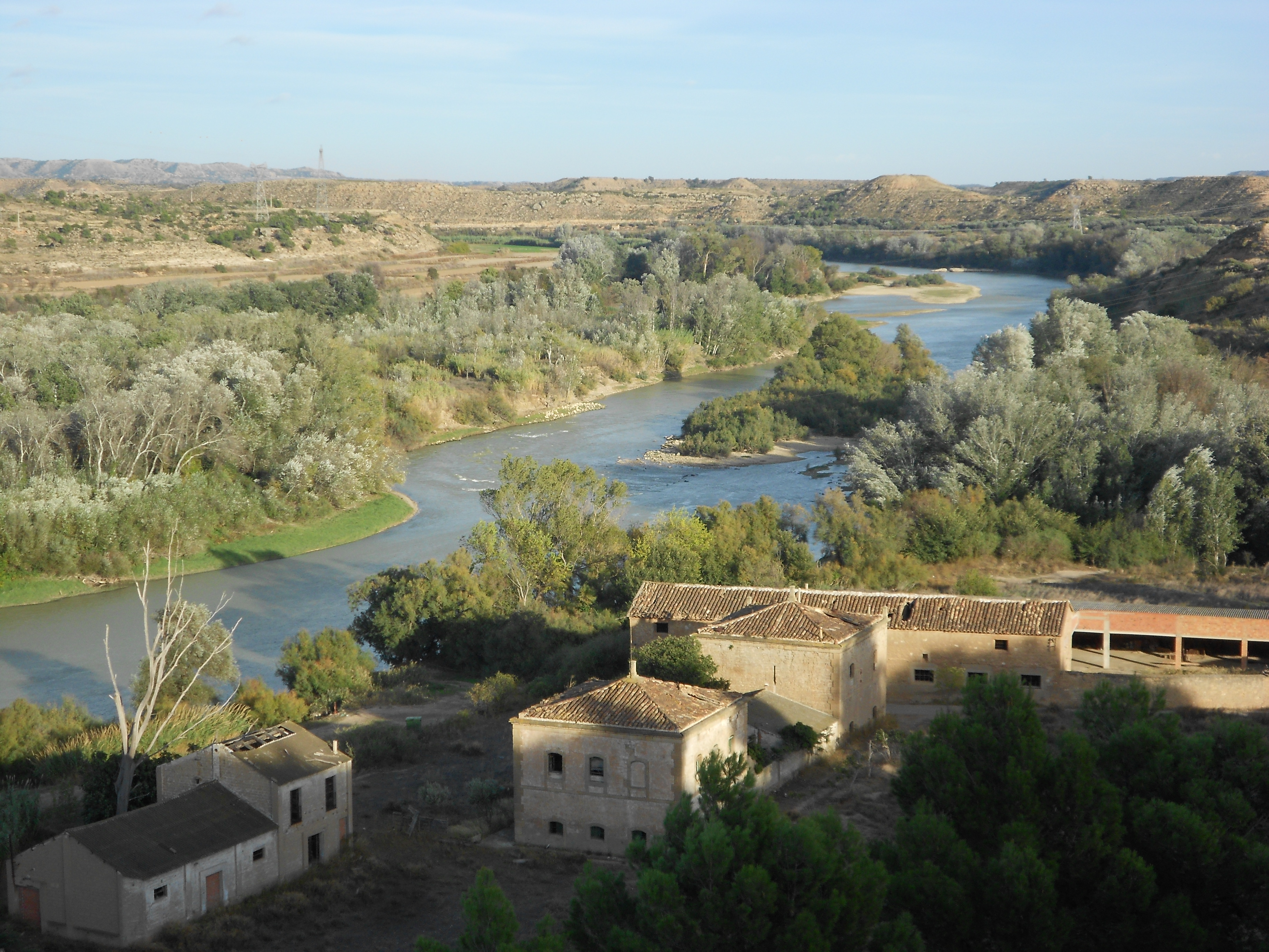 Ebro river at Escatrón (Aragón, Spain)